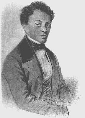 French cellist and composer, Auguste Franchomme (1808-1884)